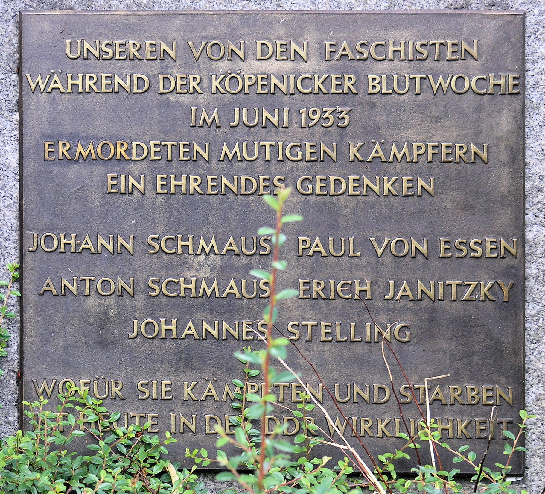 Memorial plaque, Köpenicker Blutwoche, Essenplatz 1, Berlin-Köpenick, Germany